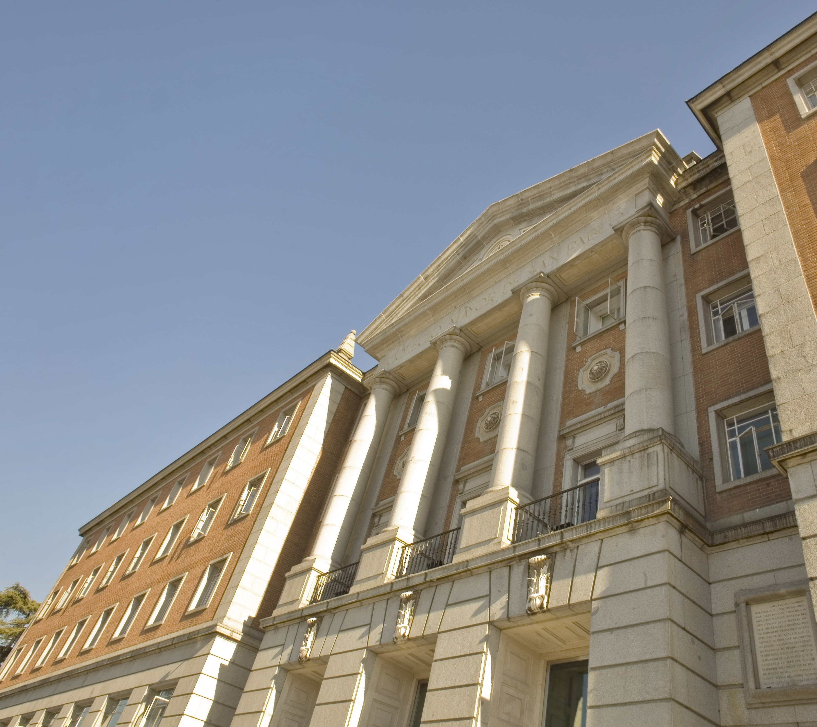 Front of Universidad CEU San Pablo's main building.